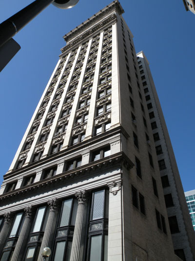 Picture of the Benedum-Trees Building at 223 Fourth Avenue in downtown Pittsburgh, Pennsylvania, on April 10, 2010. Built in 1905 and designed by architect Thomas H. Scott, the building is on the List of Pittsburgh History and Landmarks Foundation Historic Landmarks.